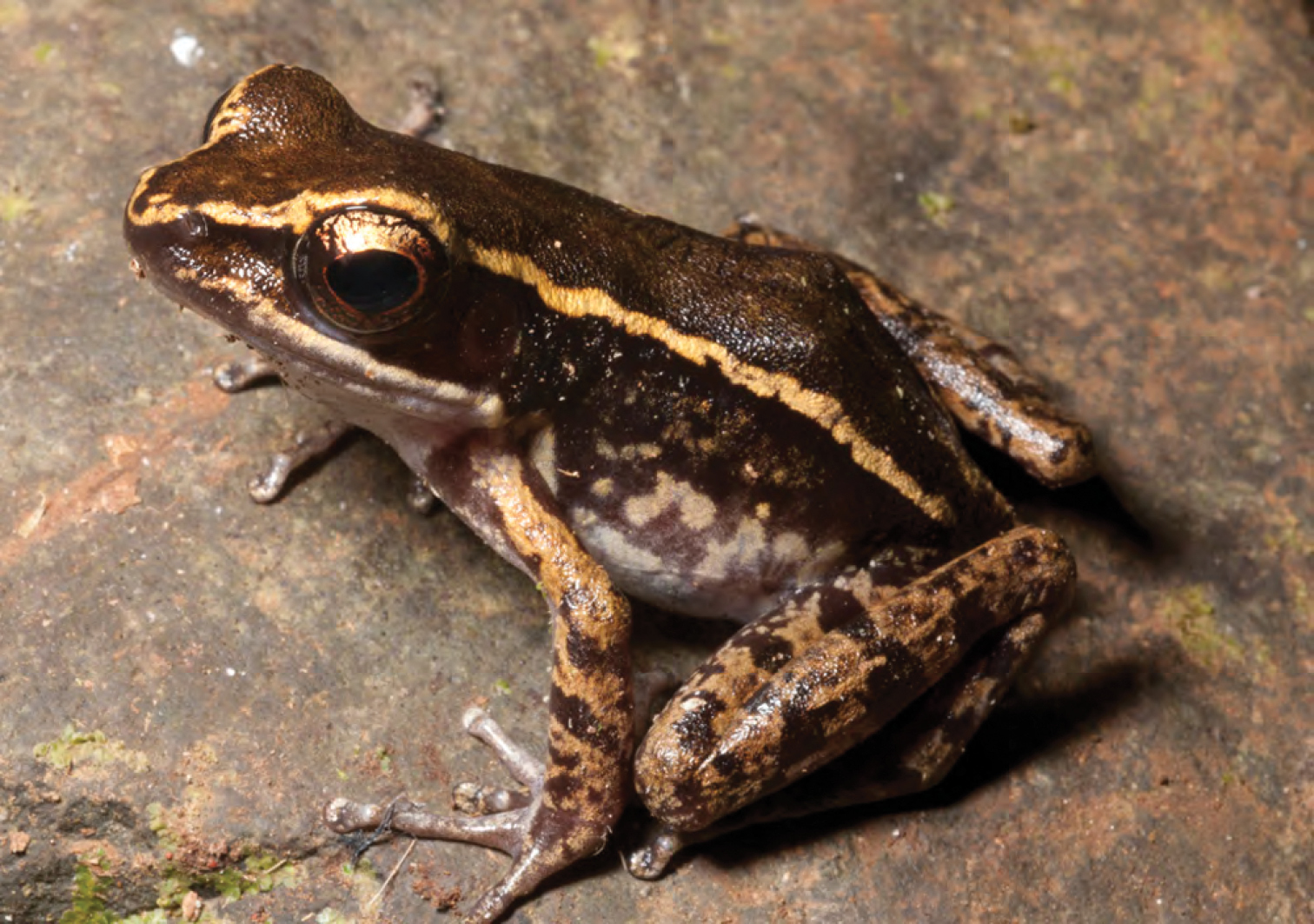 Hylarana similis (KU 329815) from mid-elevation, Mt. Cagua. Photo: RMB.